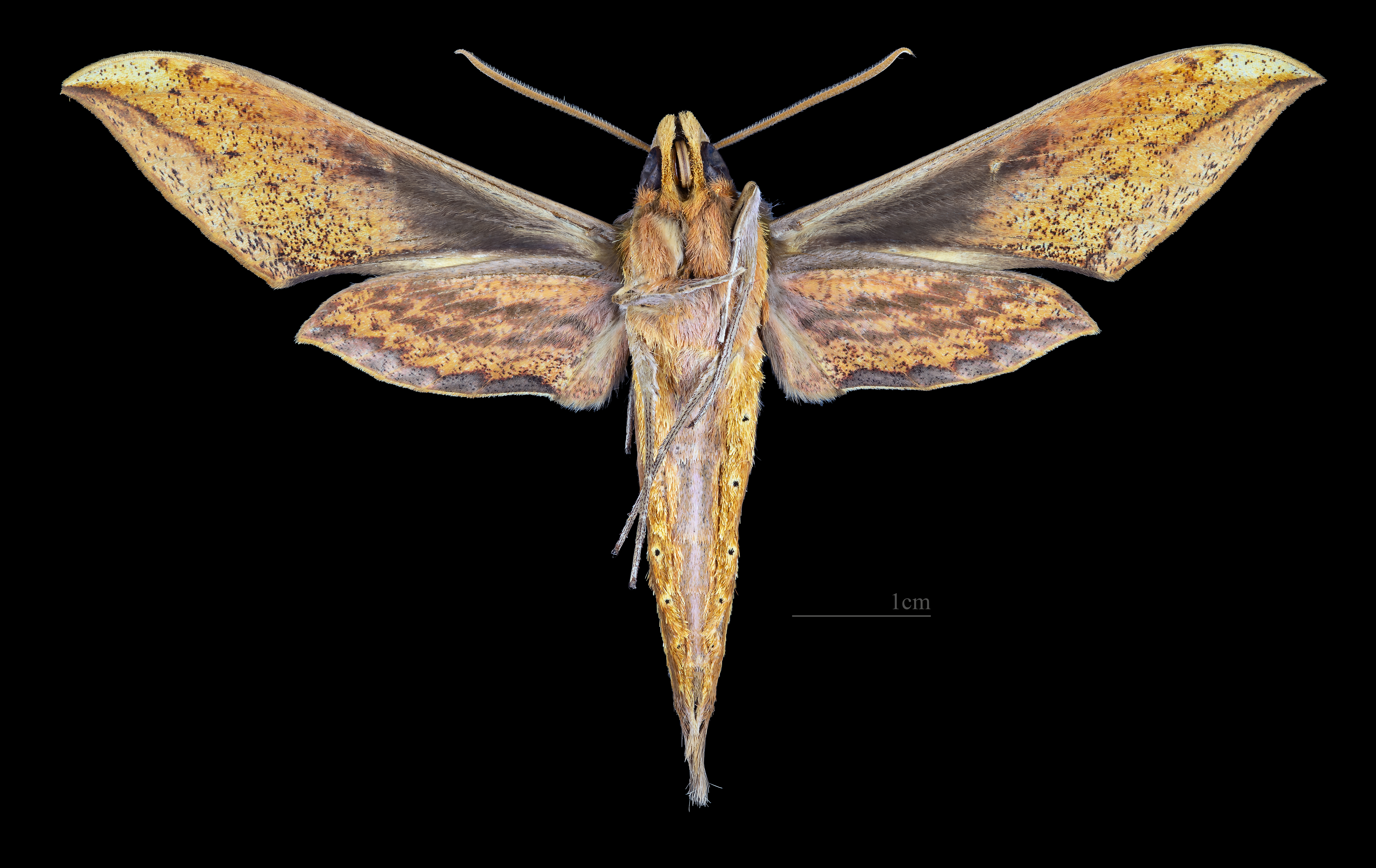 Xylophanes schreiteri - △ Ventral side Collection of the Mathematician Laurent Schwartz